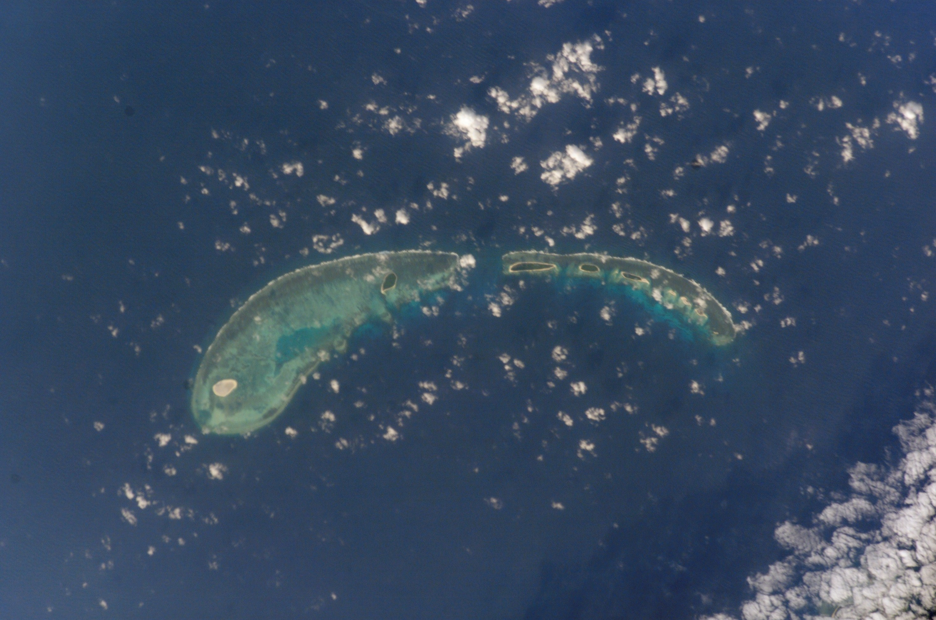 Photograph from the International Space Station of the South China Sea which includes the Amphitrite Group features